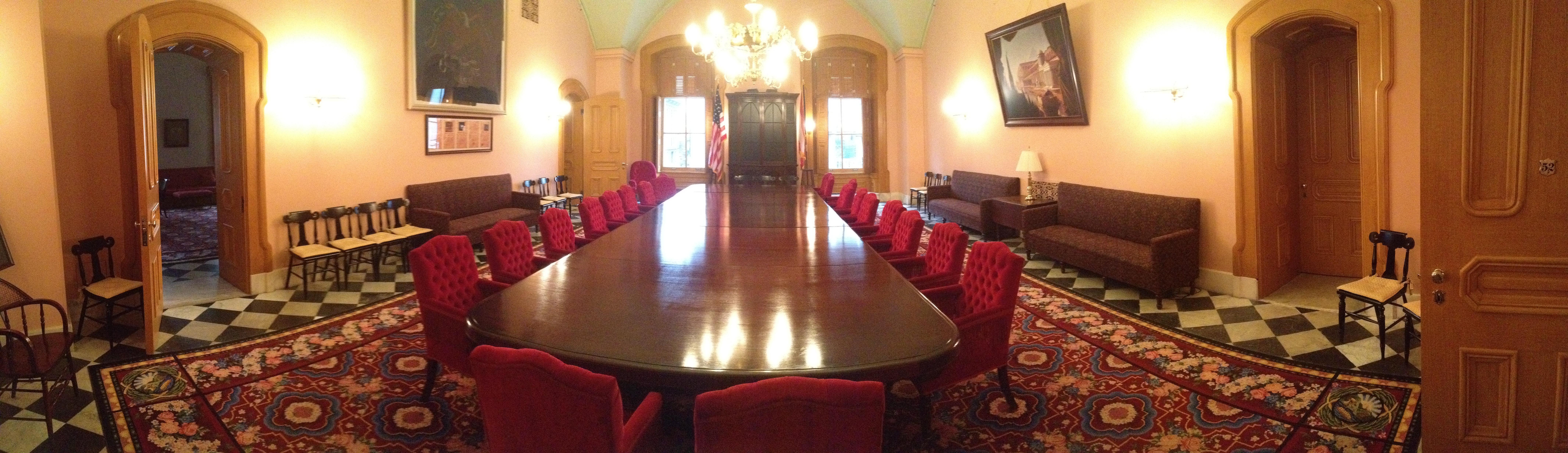 The Cabinet Room of the Ohio Statehouse